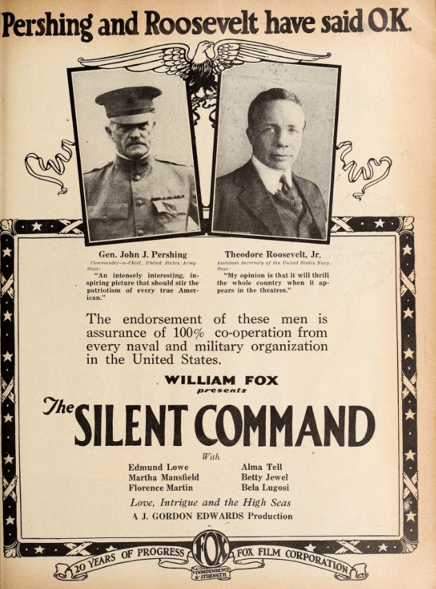 This is a magazine advertisement for the 1923 film The Silent Command, originally published in Moving Picture World, showing the endorsements from Pershing and Roosevelt that were part of this film's cooperative production with the United States Navy.